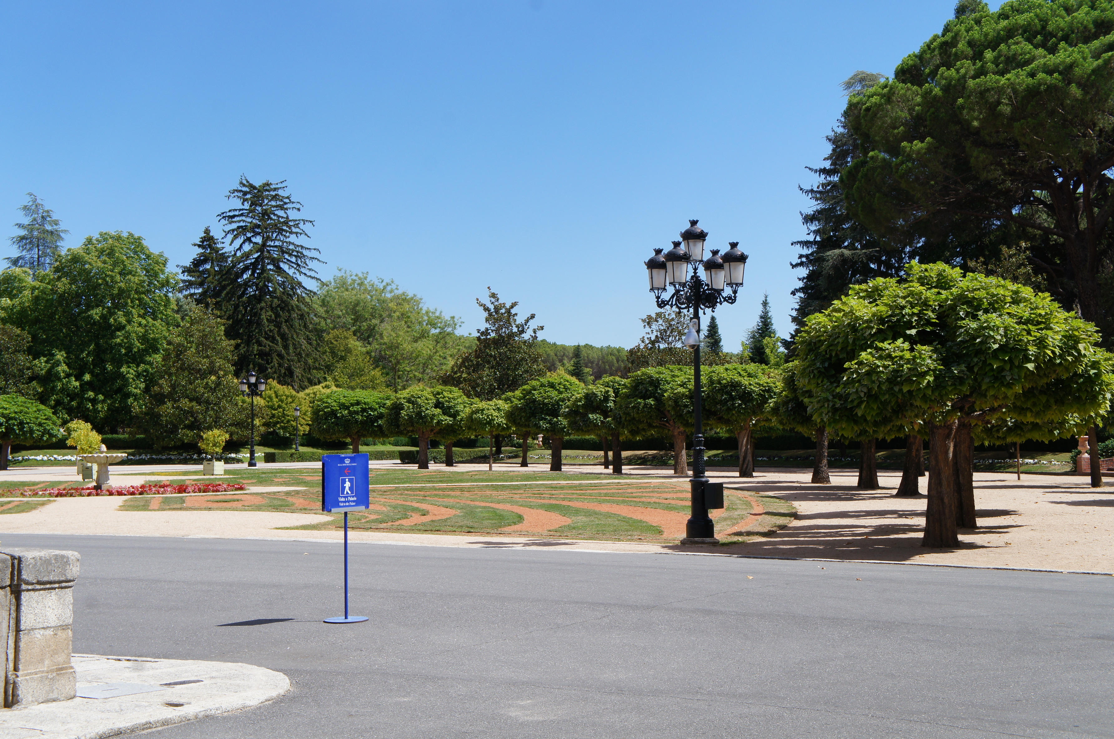 Royal Palace of El Pardo, Madrid